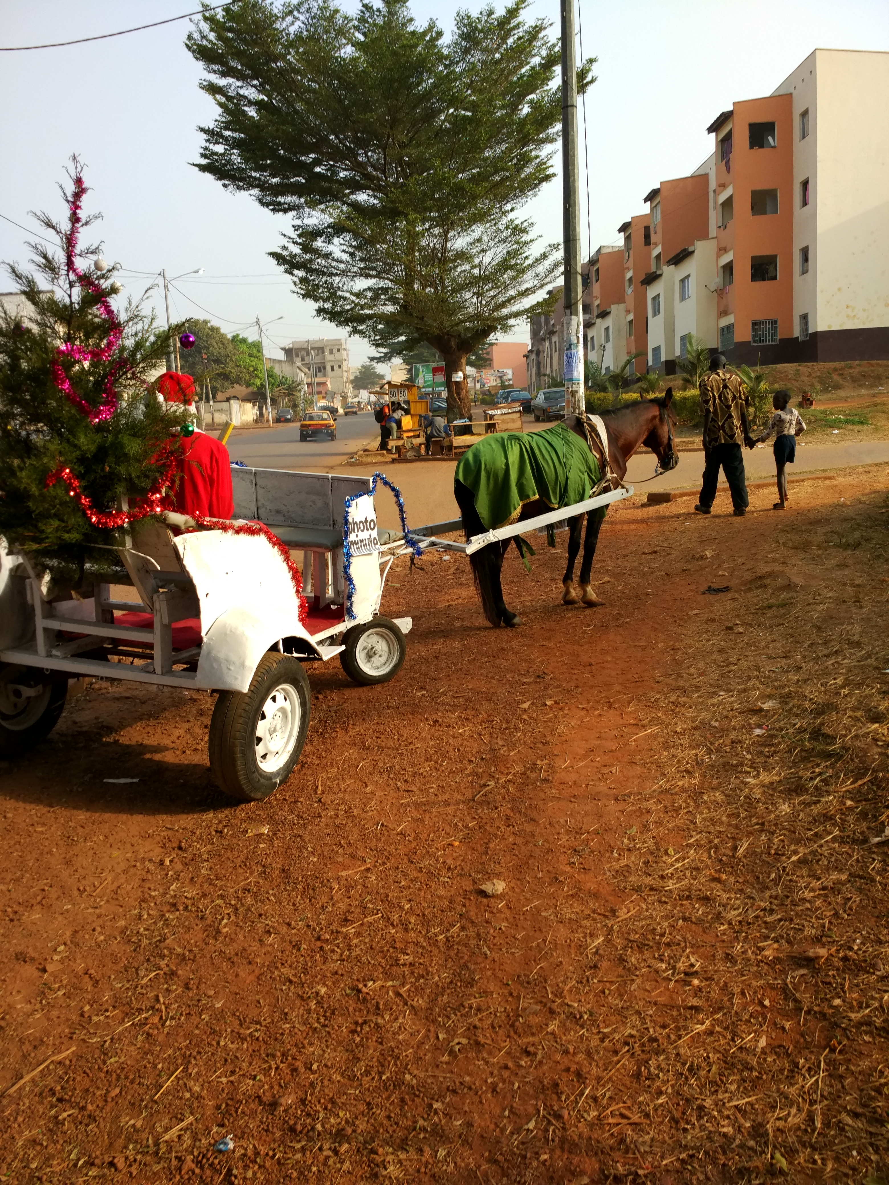 Here is a picture of a man wearing the Santa costume on December 25 2015 at 8 am on the road leading to a junction nicknamed "Banana junction" in Mendong Quarter, Yaounde. On Christmas day, in Cameroon, most families suit their children with the best clothes they could get in the market and go to church, so this man is waiting to get pictures with the children after or before the church service (of course you have to pay for the picture). the earlier he is the more money he makes.as the saying goes "the early bird gets the warm" This is an image from Cameroon